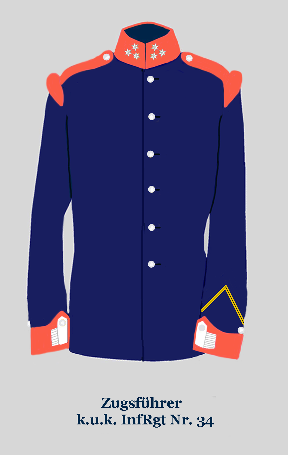 Sergeant of the k.u.k hungarian 34th Infantry Regiment. Brick-red identification color and white buttons. (More tha 3 years in Service)